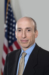 Official portrait of Chairman of the Commodity Futures Trading Commission Gary Gensler